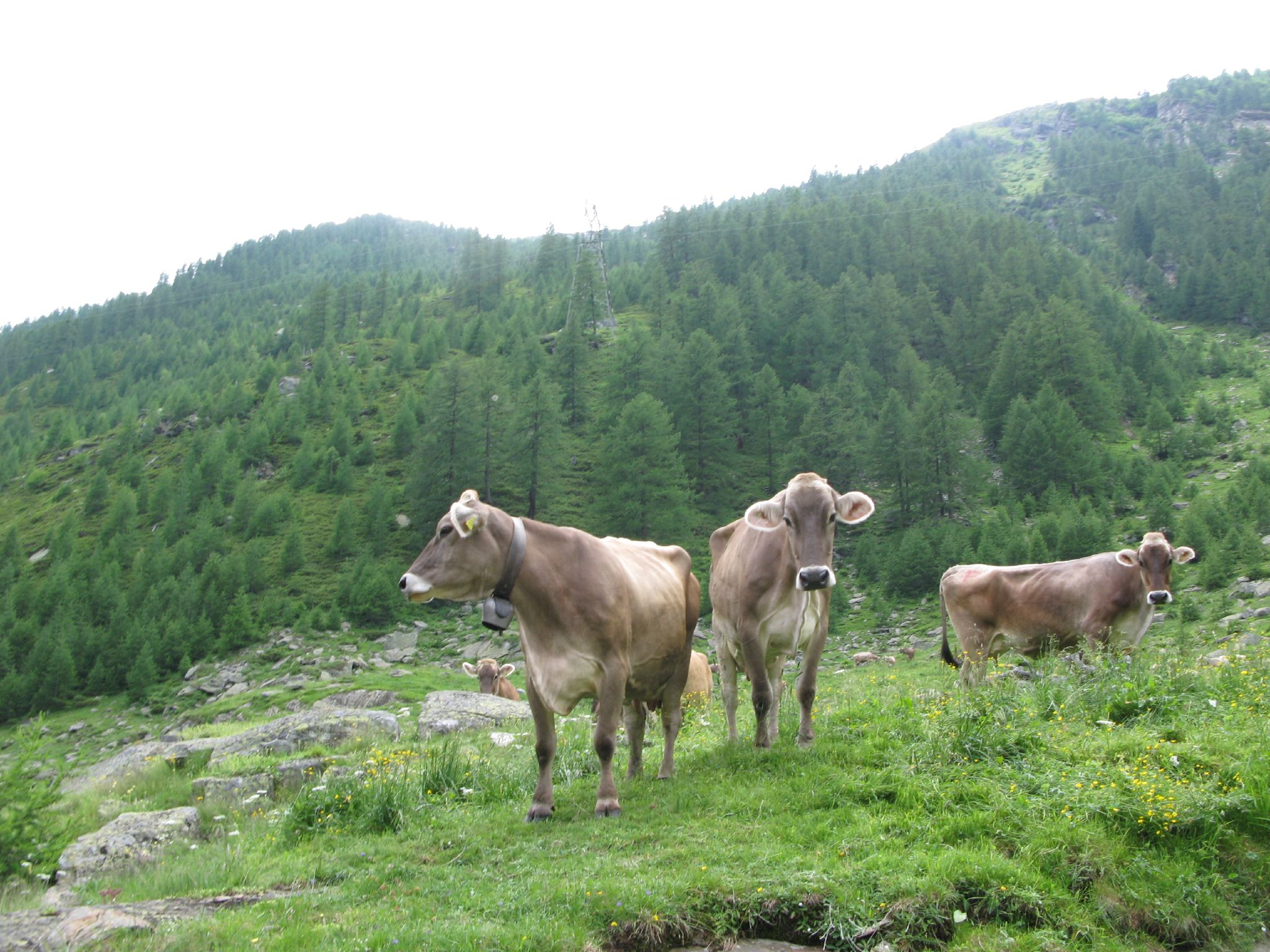 Cattle in the Peccia valley, Ticino, Switzerland